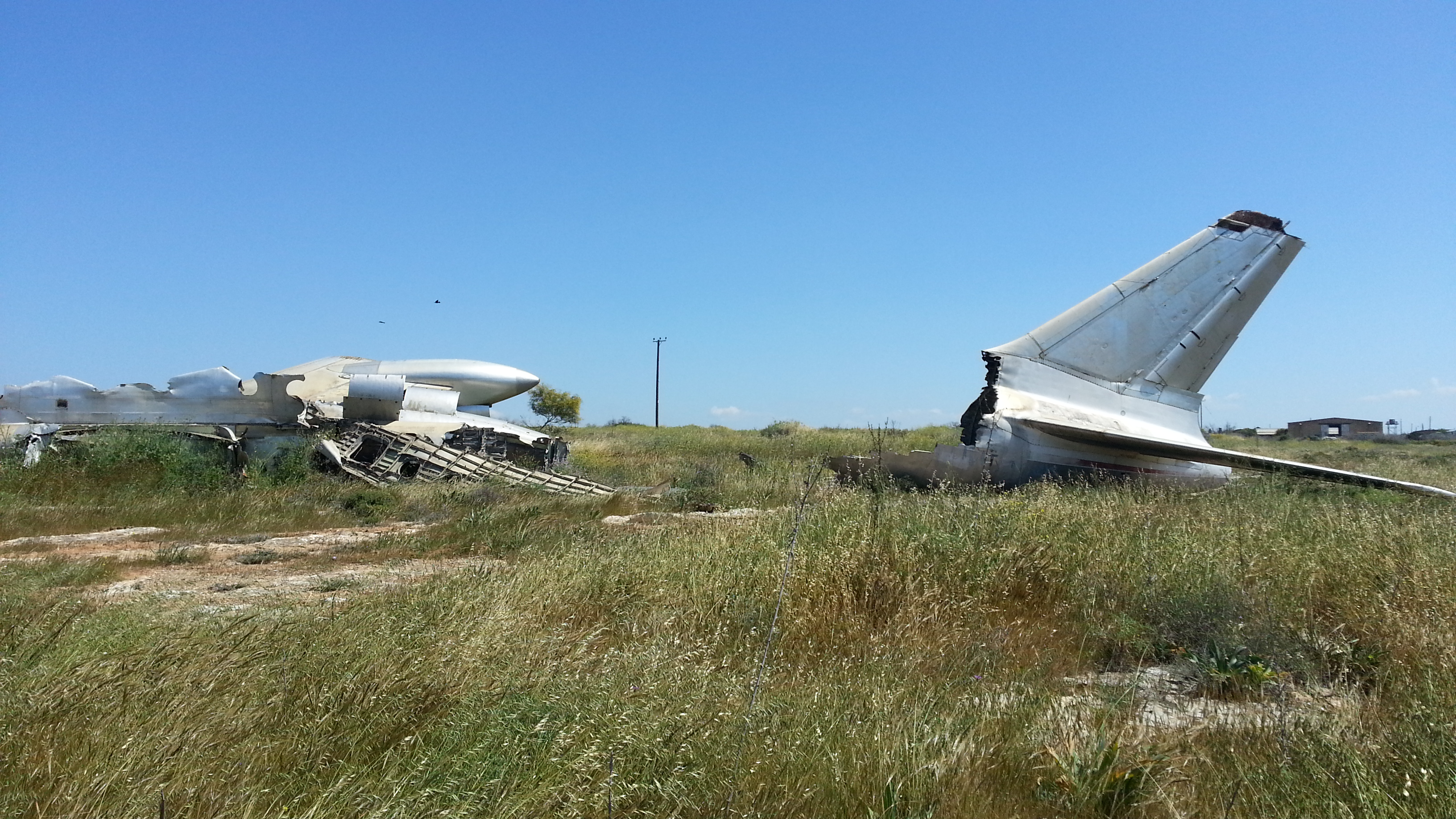 Wreckage of the Czechoslovak Airlines Tupolev Tu-104 (OK-MDE), CSA Flight 531